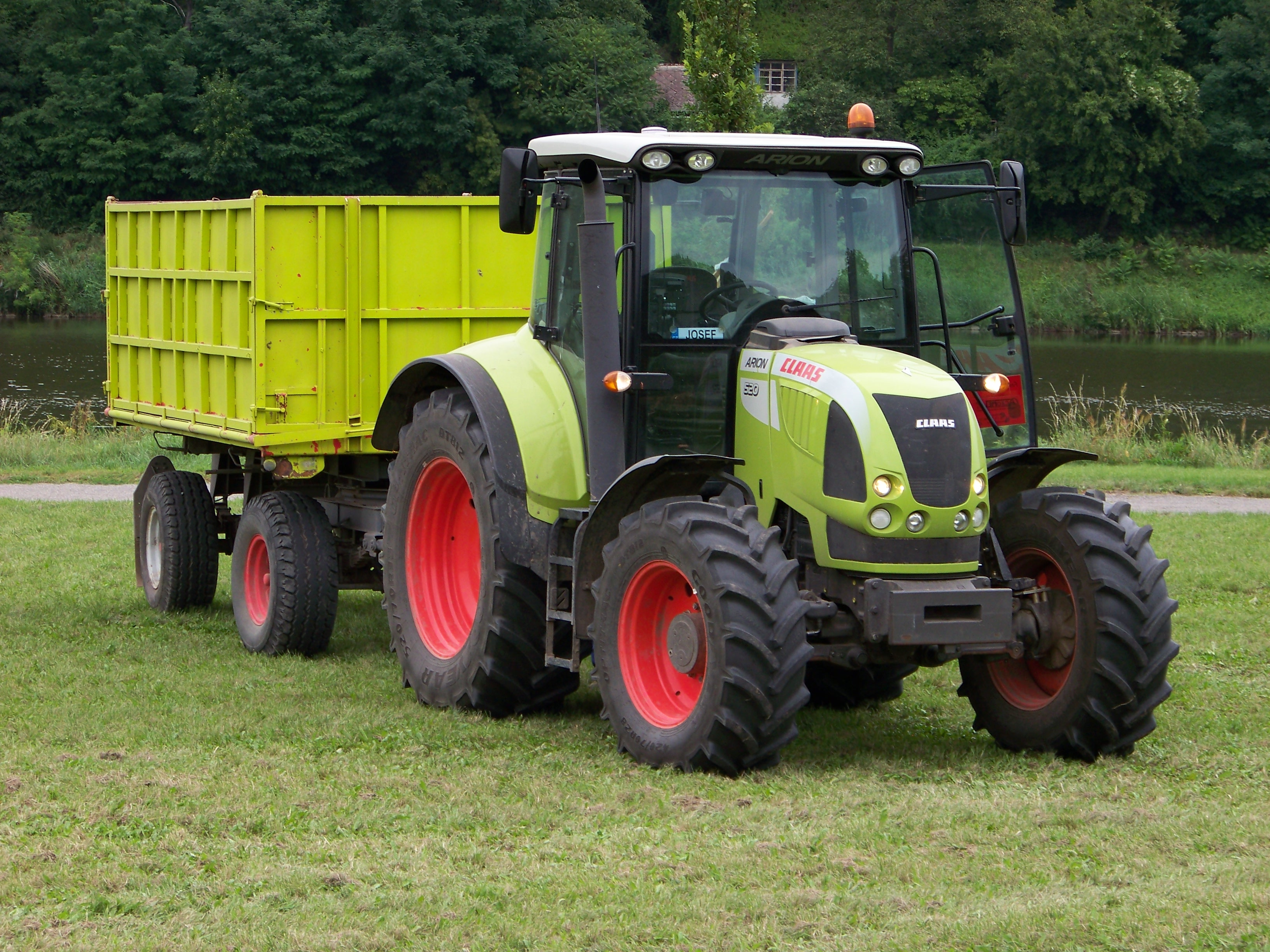 Dolany, Mělník District, Central Bohemian Region, the Czech Republic. A tractor near the Vltava.